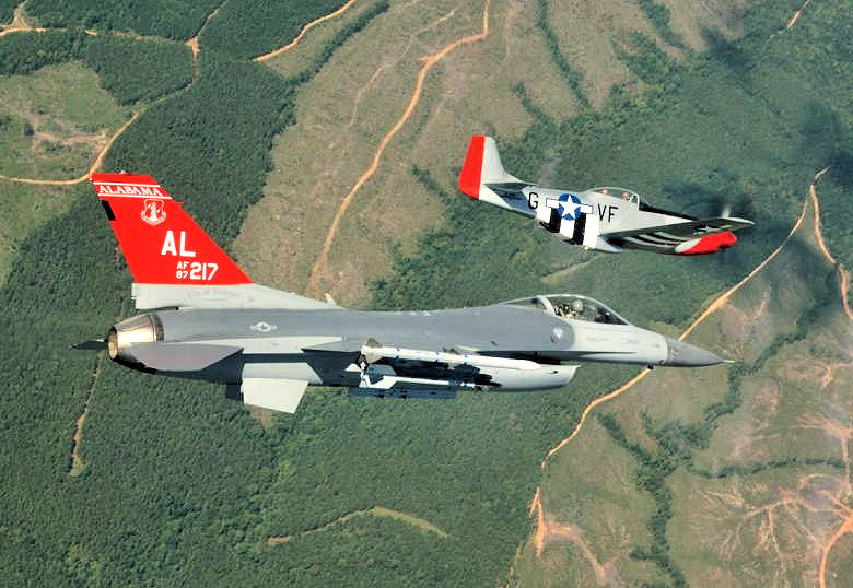 USAF F-16C block 30 #87-0217 from the 160th FS is seen wearing special tail markings for the Alabama ANG commemorating the reactivating of the 100th FS Tuskegee airmen, formats with a P-51 Mustang in Tuskegee markings on September 12th, 2007.